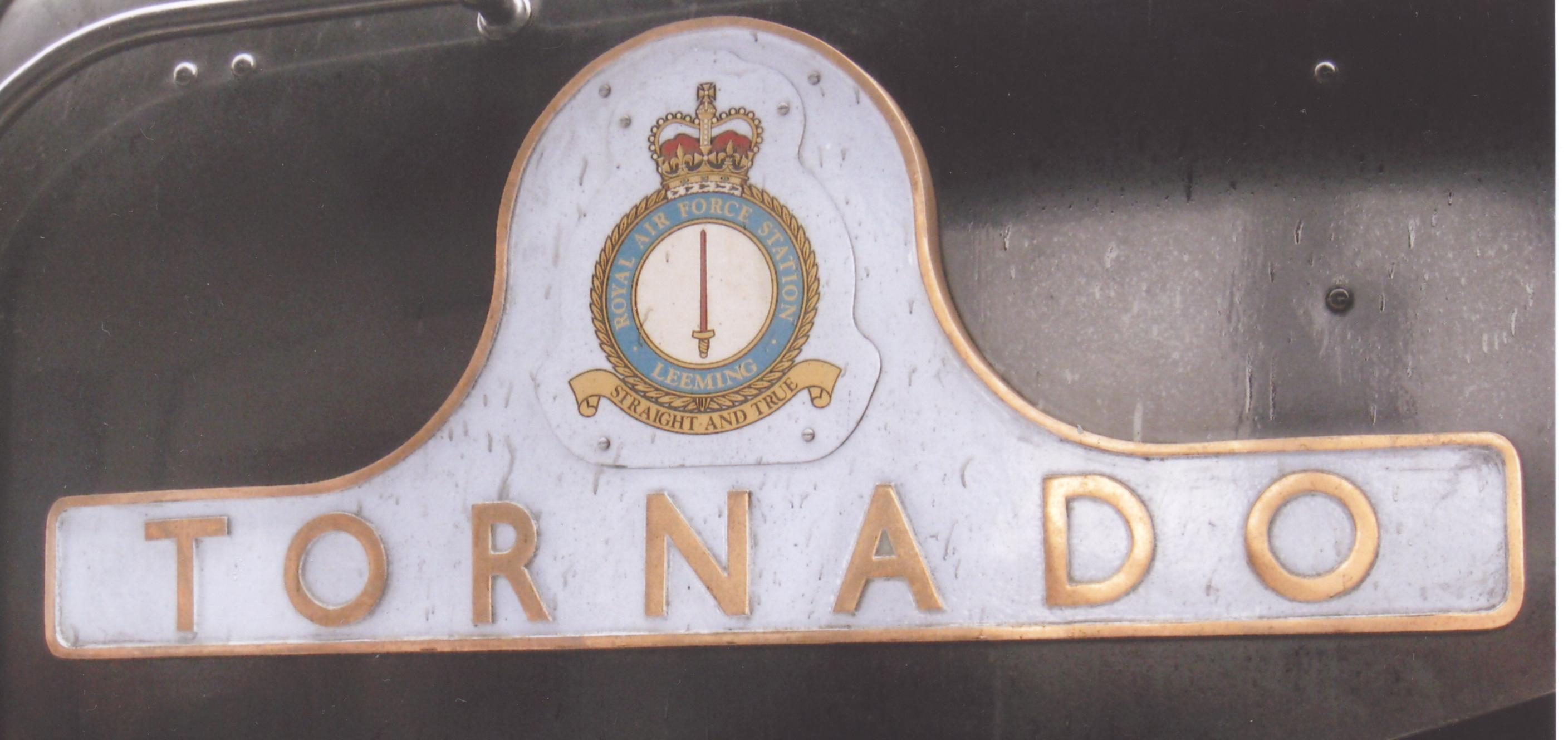 The nameplate of A1 4-6-2 60163 "Tornado" at York station showing the badge of RAF Leeming, North Yorkshire, where RAF Tornado aircraft were based.